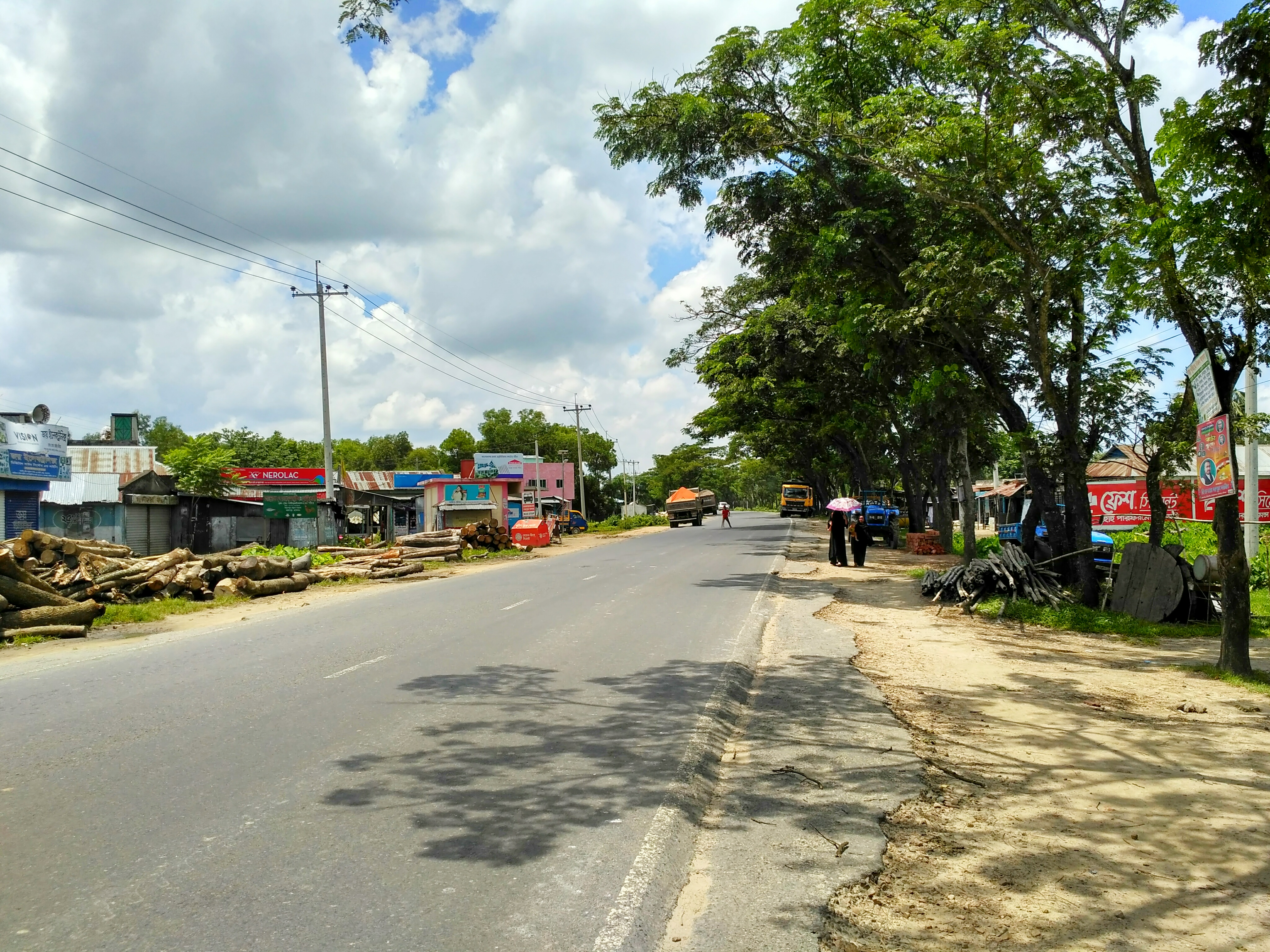 A view of national highway N2 near Shahpur bus station, Madhabpur, Habiganj. Dhaka - Sylhet highway. (August 2019).